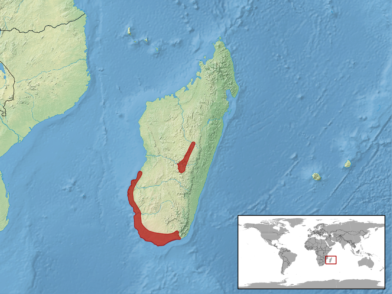 geographic distribution of Madascincus igneocaudatus